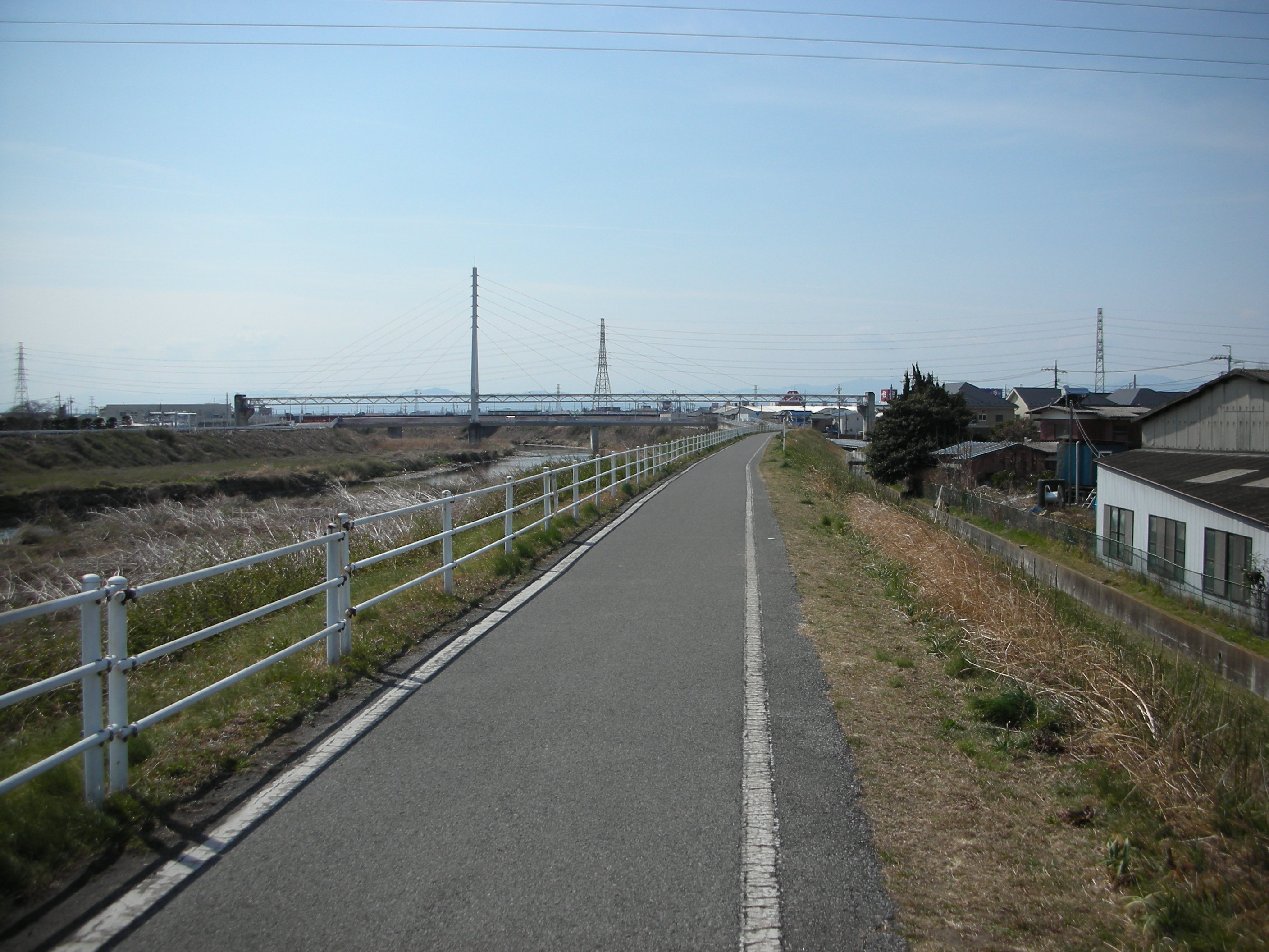 The Takasaki Isesaki Bicycle Road in Wakabacho, Isesaki City